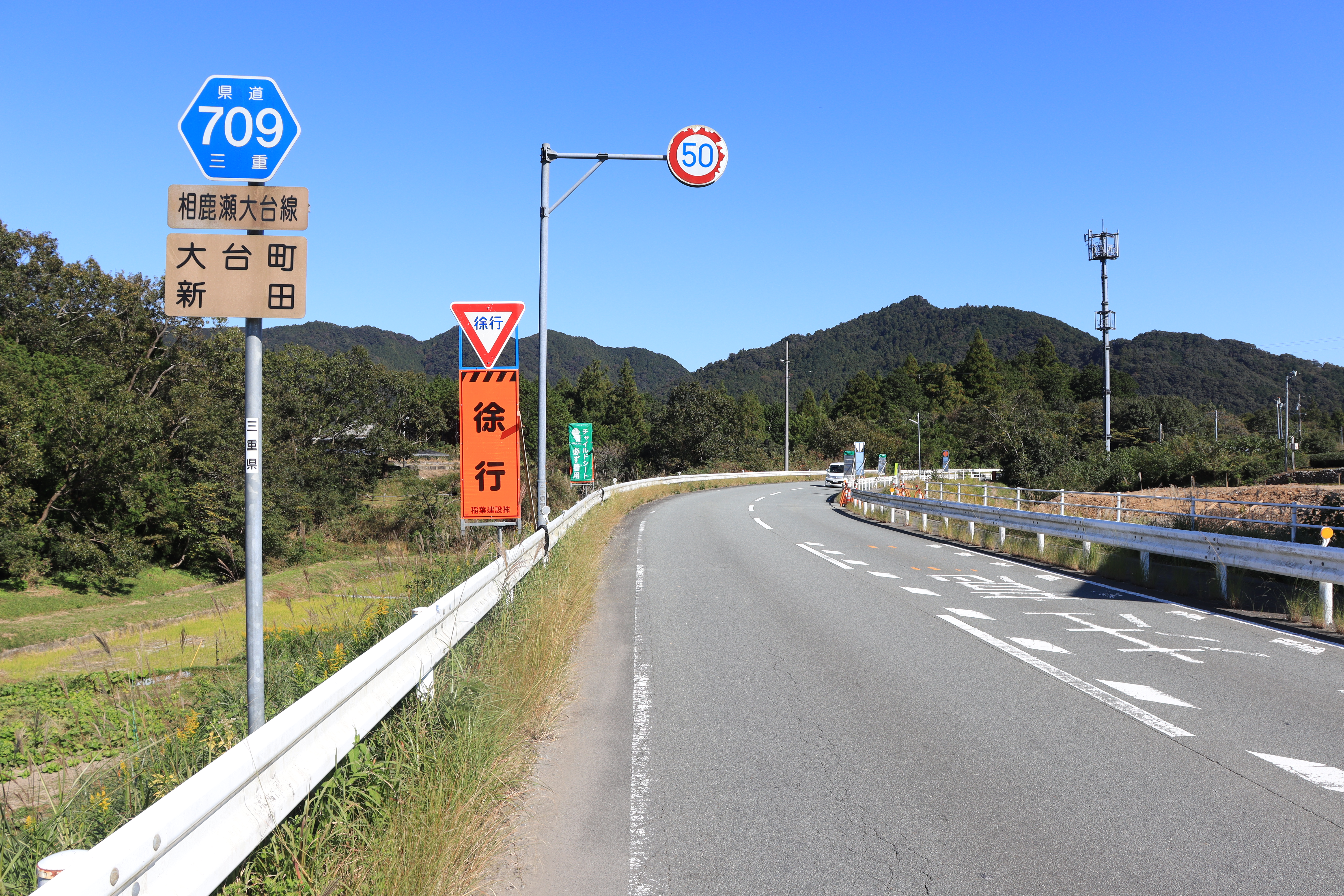 Mie Prefectural Road Route 709 in Shinden, Odai, Mie Prefecture, Japan.